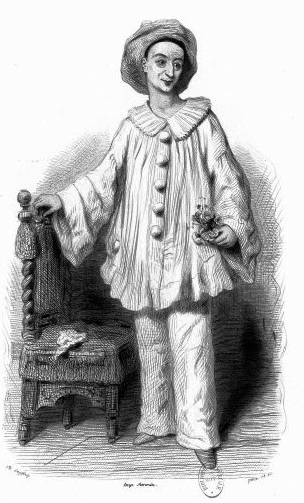 Portrait of French mime Paul Legrand (1816-1898) by Charles-Michel Geoffroy (1819-1882)